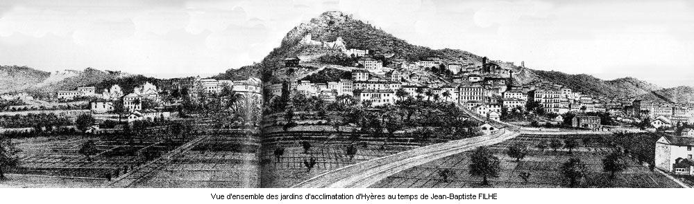 vue d'Hyères